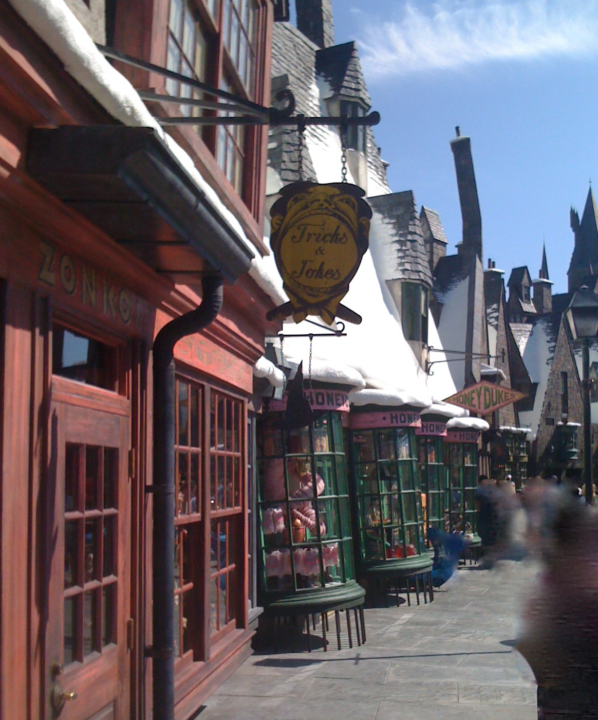 Shops of Hogsmeade